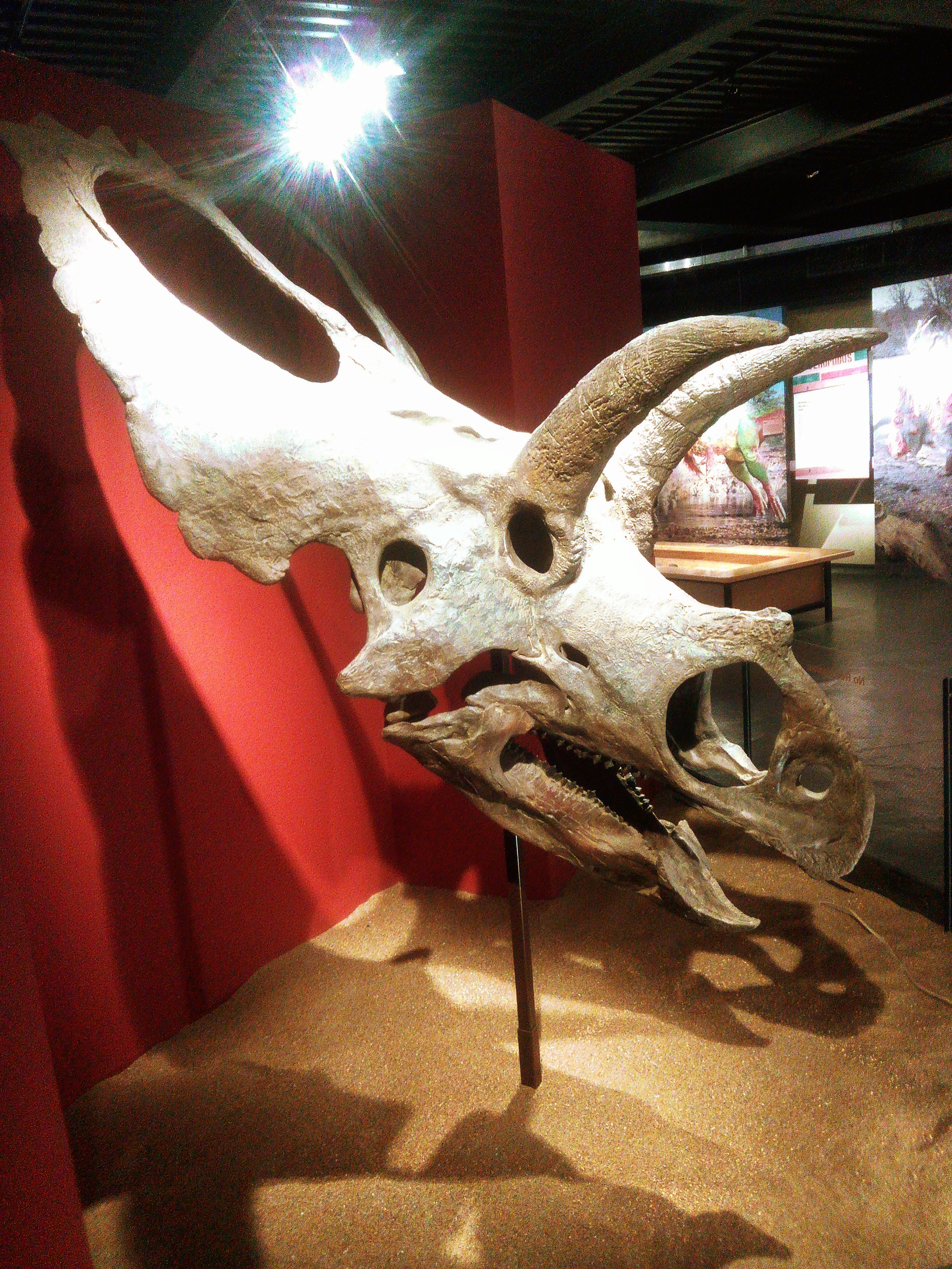 Restored skull of Coahuilaceratops magnacuerna.